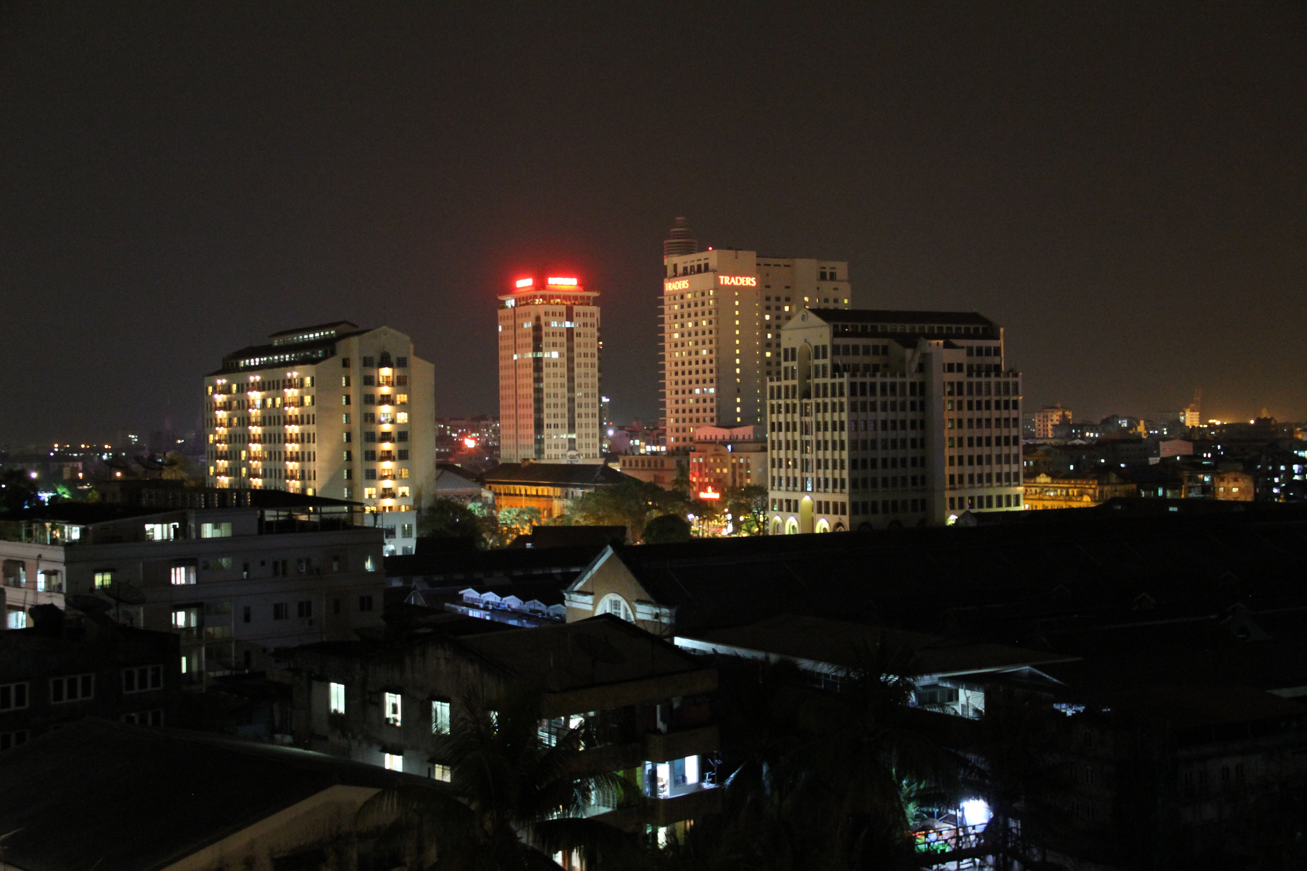 Yangon City Night View